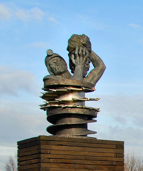 Mining Statue This monument to Mr. Anderton, the inventor of the power shearer and loader, otherwise known locally as "th'cutter", which revolutionised longwall mining throughout the world.You can see the helical drum of the cutter under the bust of a collier. Each pick in the drum had a manganese-steel tip and each pick was worth £27 over 25 years ago.Originally the monument was situated in front of Anderton House, Lowton, which place housed National Coal Board district administrative offices; with the closure of these offices together with that of the last colliery in the Lancashire coalfield, the monument was moved to National Coal Board (renamed British Coal) Western Area offices in Stoke-on-Trent, Staffordshire. However, as the Anderton shearer was first used at Ravenhead Colliery ("Groves's"), St. Helens, of which colliery Mr. Anderton was the general manager, St. Helens council asked British Coal if they could transfer the monument to a site which is very near to where Ravenhead colliery used to be. One more point (and don't tell anybody): Mr. Anderton was a Wiganer. There is often confusion between James Anderton CBE , former chief constable of Manchester who was born in Wigan , and James Anderton OBE , inventor of the power shearer , whose birthplace I have so far been unable to confirm. However he lived locally and died aged 89 at his home in Newton le Willows.